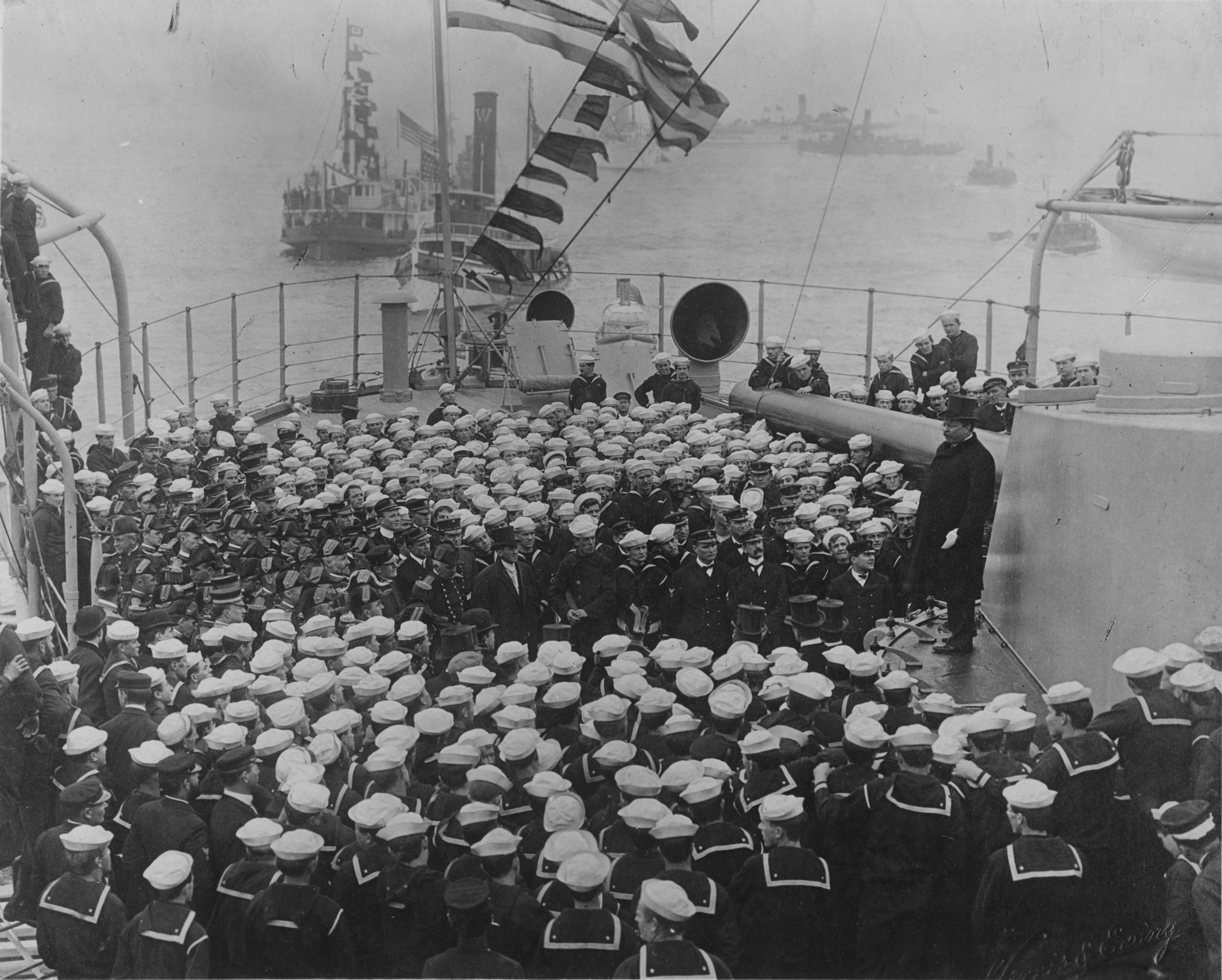 (standing on 12 gun turret at right) Addresses officers and crewmen on the after deck of USS Connecticut (Battleship # 18), in Hampton Roads, Virginia, upon her return from the Atlantic Fleet's cruise around the World, 22 February 1909. Collection of Lieutenant Commander Richard Wainwright, Jr., USN, 1926. U.S. Naval History and Heritage Command Photograph.